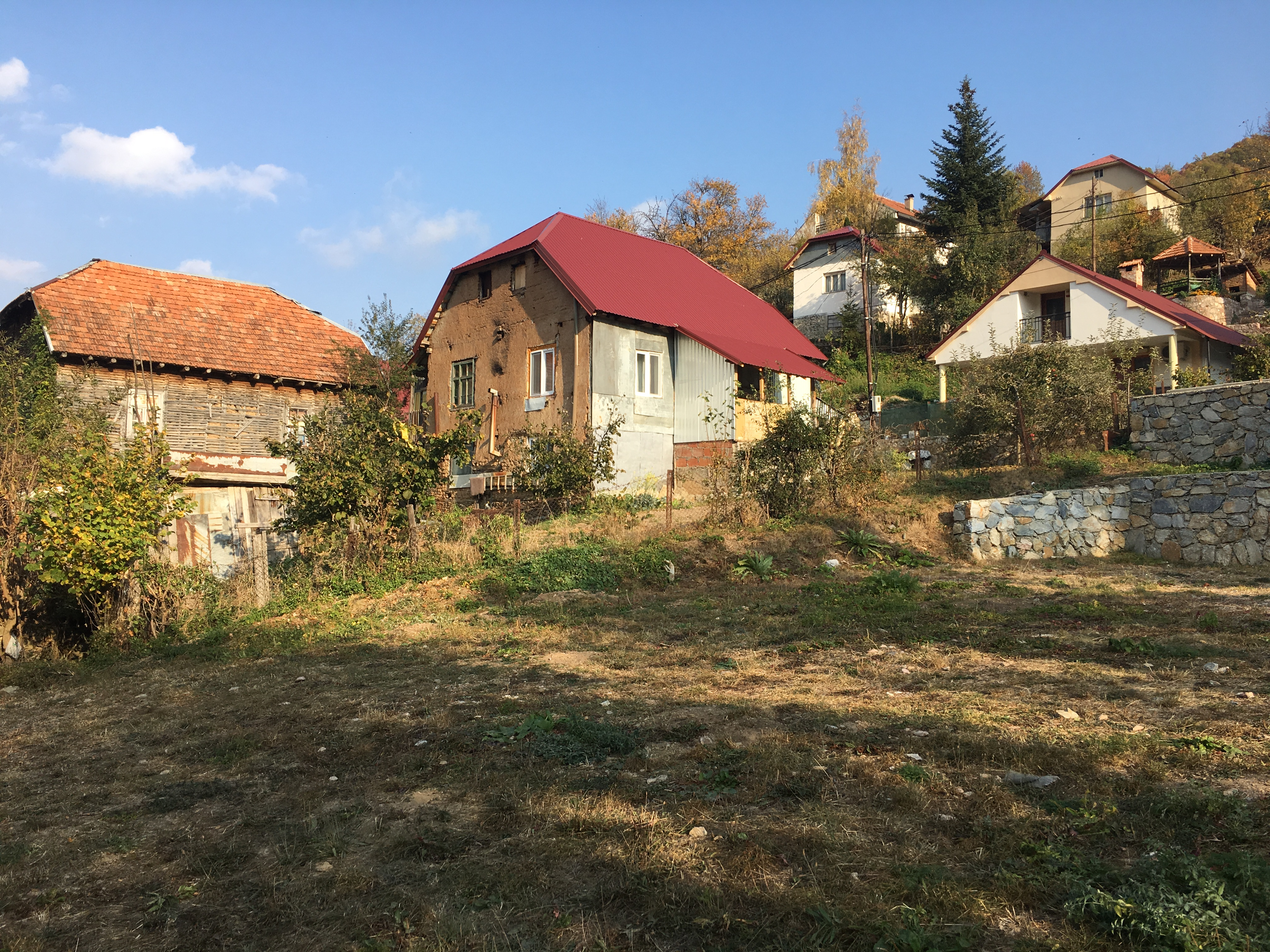 Wikiexpedition to Kopačka